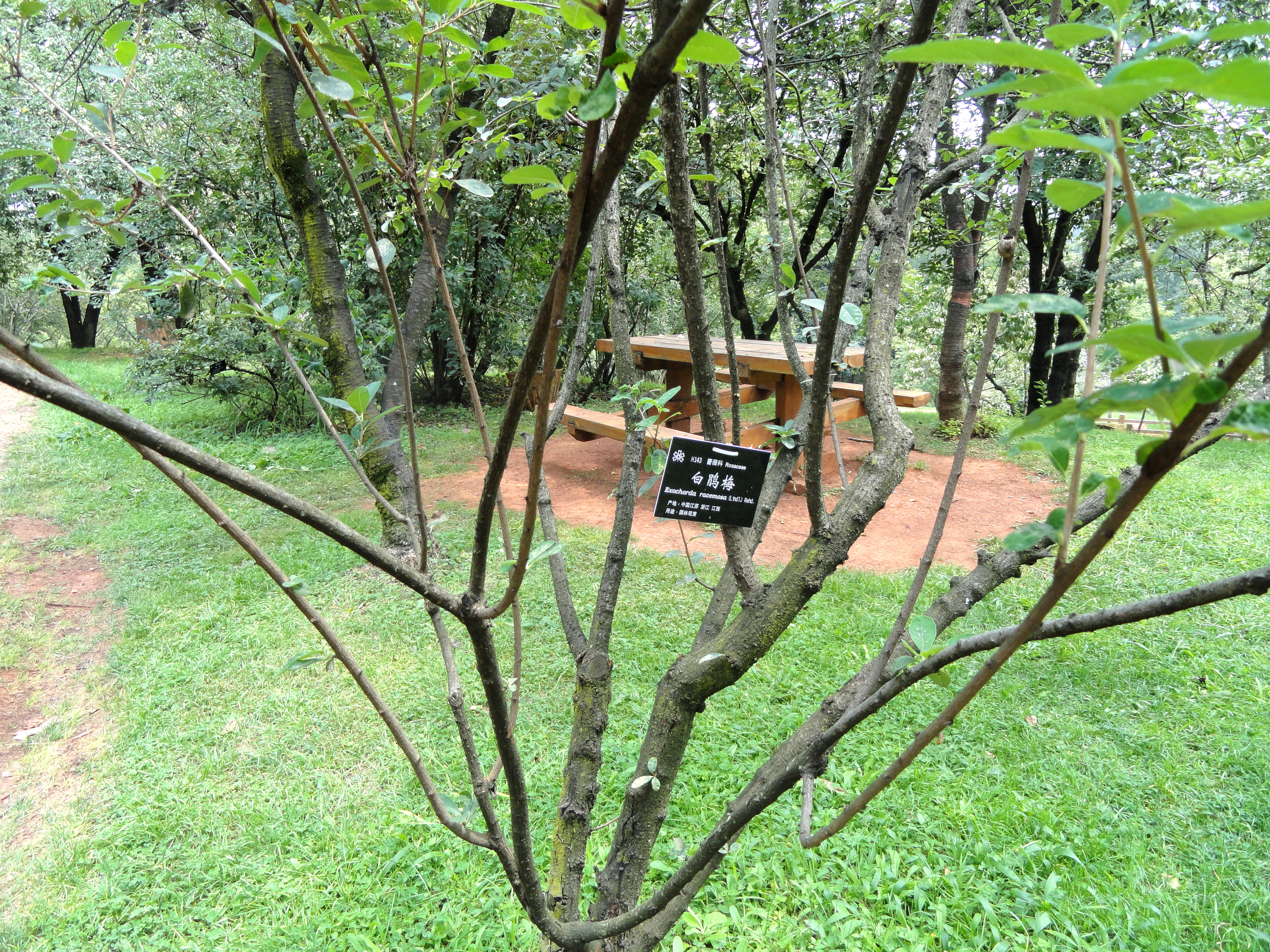 Plant specimen in the Kunming Botanical Garden, Kunming, Yunnan, China.